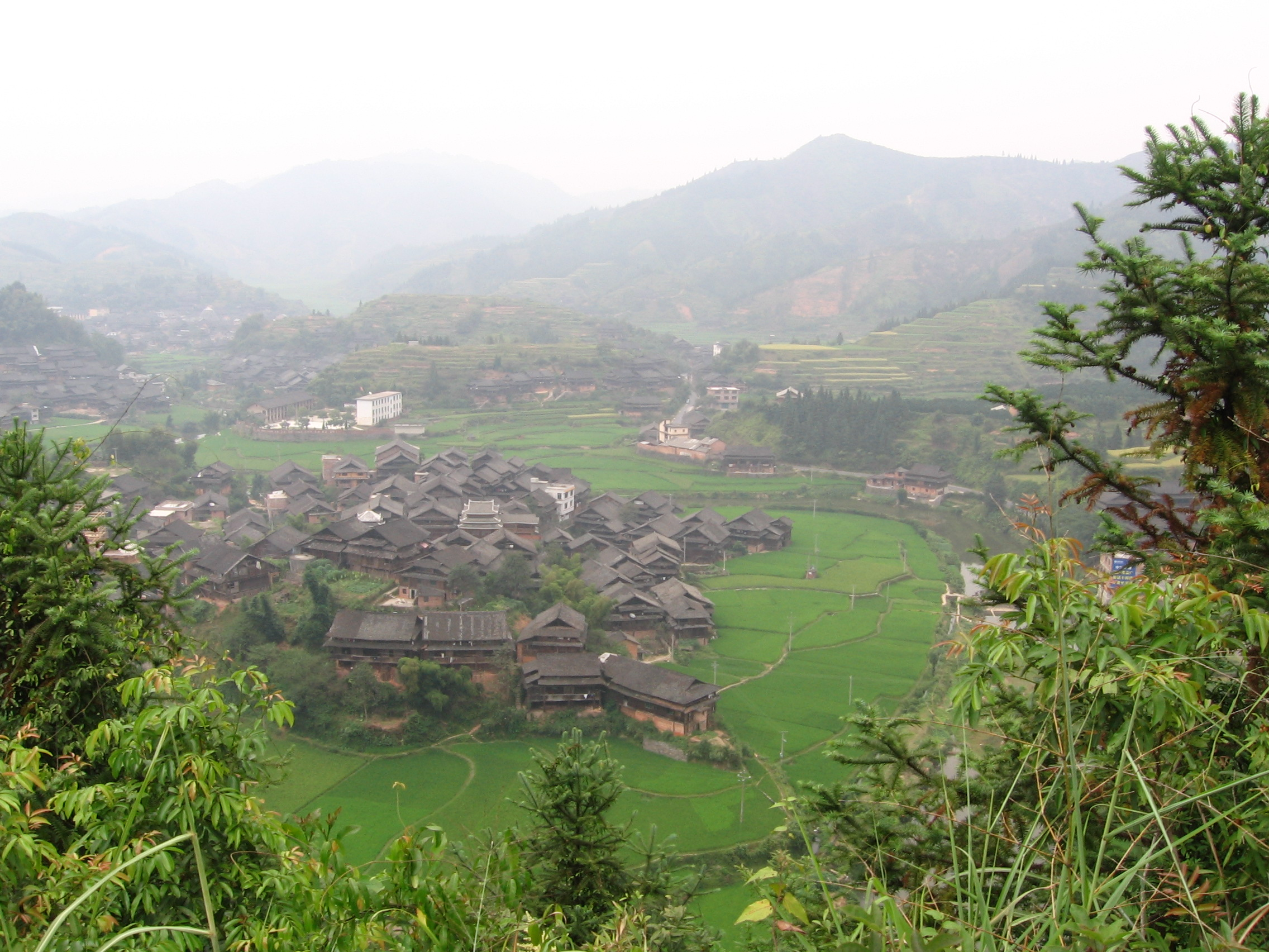 View from hill over Chengyangqiao (程阳桥) Dong （侗族) village in South Guizhou province, China